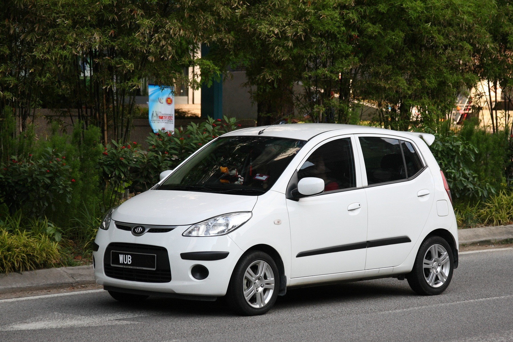 Inokom i10 in Kuala Lumpur, Malaysia